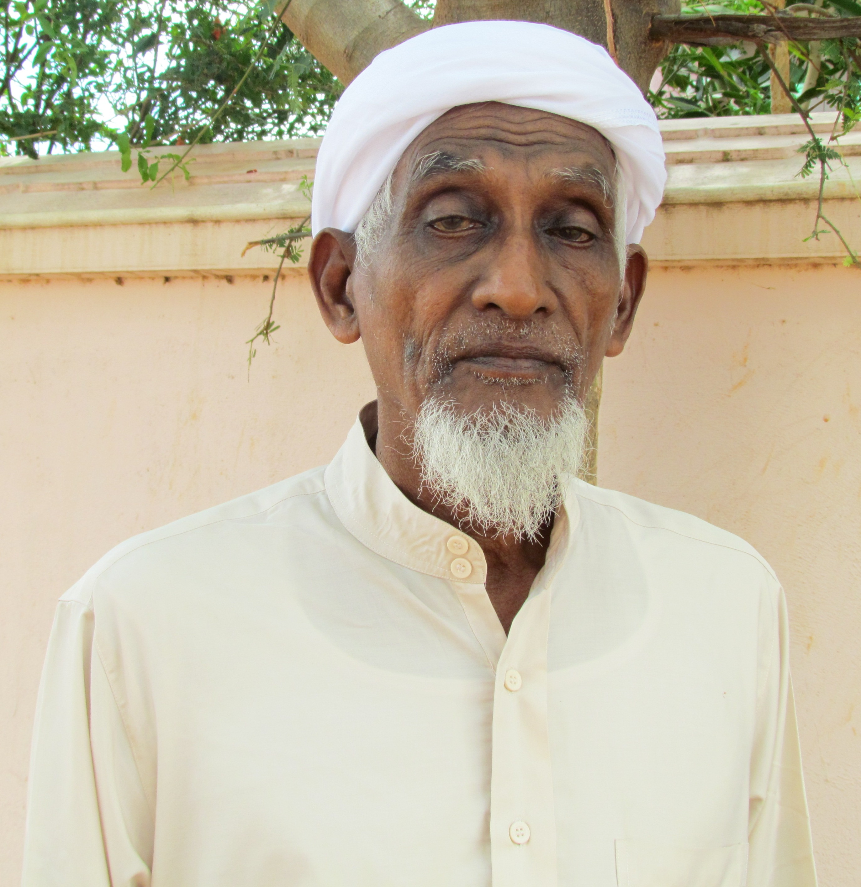 Ali Manikfan